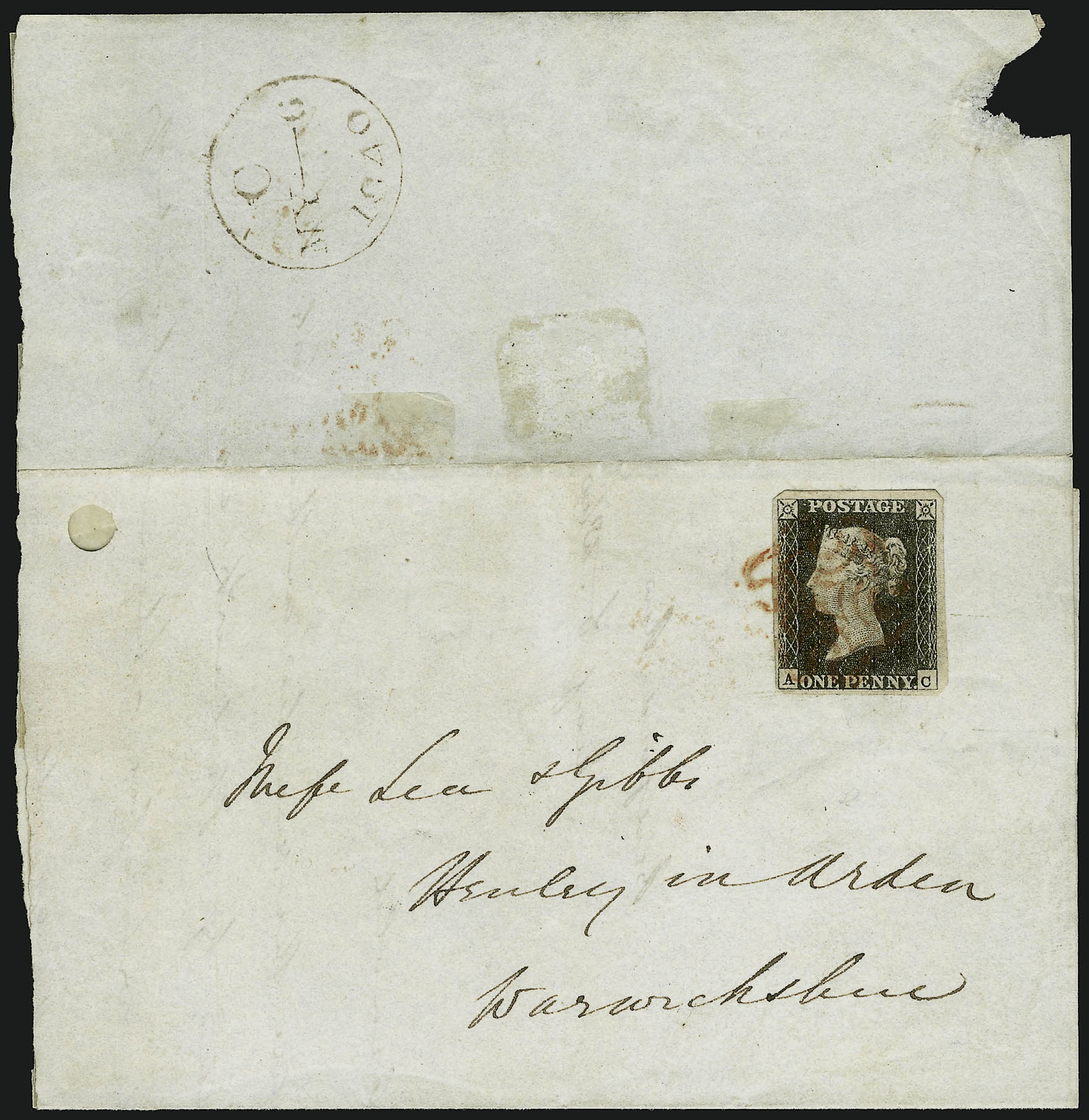 Very scarce use of the world's first postage stamp Penny Black used on first day of valid use, May 6, 1840, tied by red Maltese Cross cancel on folded cover to Warwickshire, brown "C MY-6 1840" first day datestamp on backflap verifies date of use. Sold as lot 1018 at Robert Siegal 2006 Rarities of the World auction for $45,000.